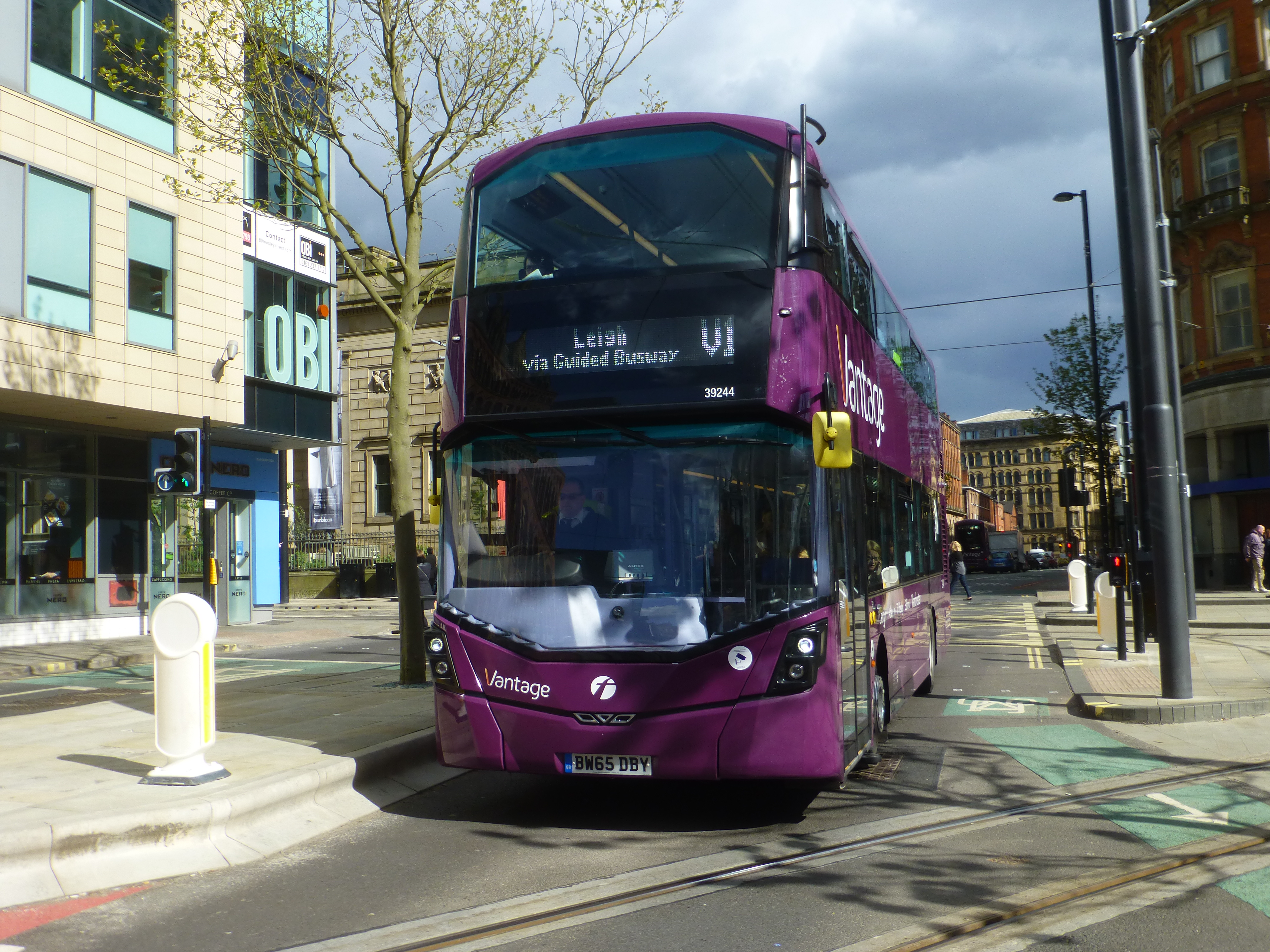 A Vantage bus on route V1 crosses tramlines at St Peters Square in Manchester city centre.